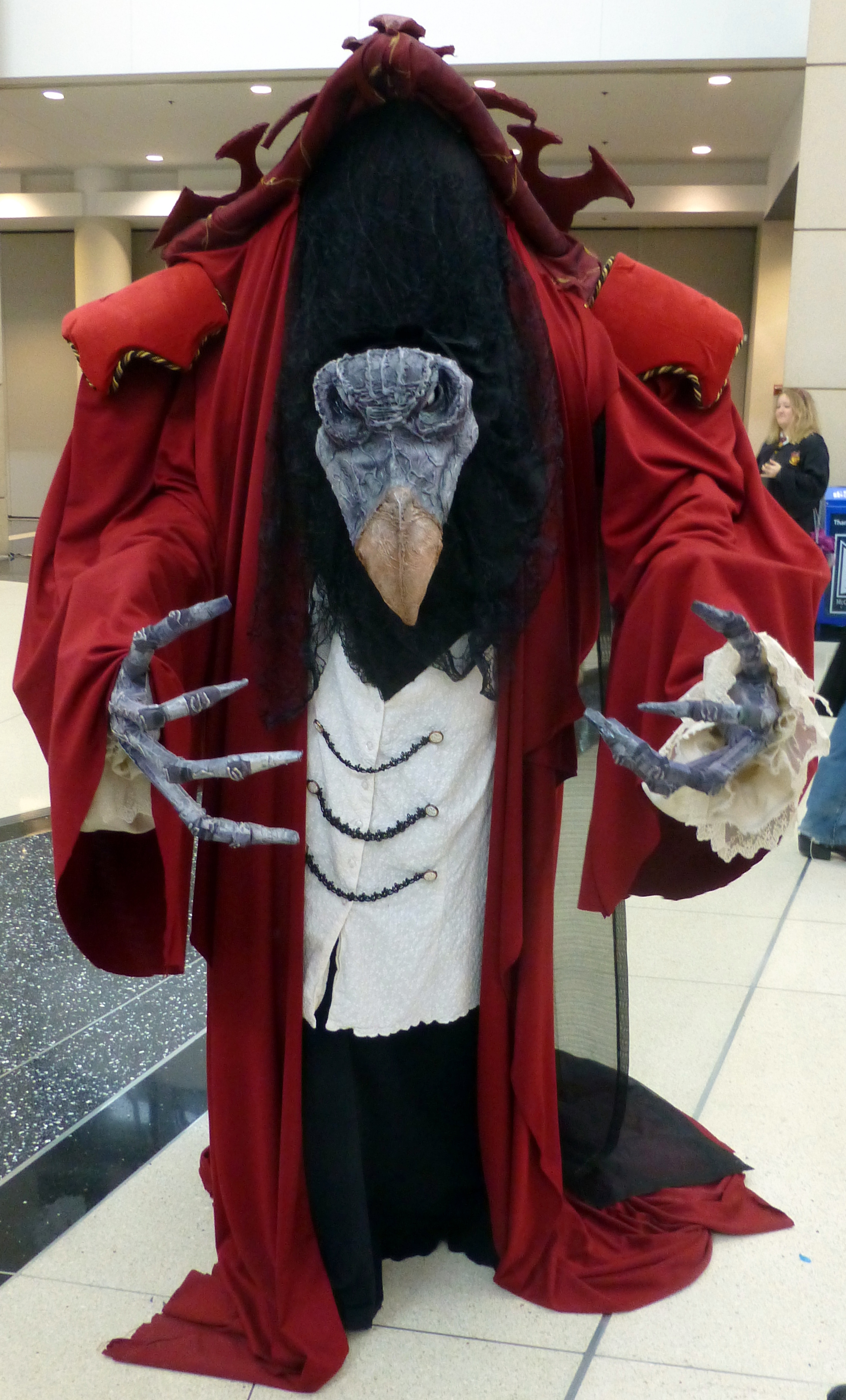 Skeksis from Dark Crystal Cosplay at Chicago Comic & Entertainment Expo (C2E2) 2015.